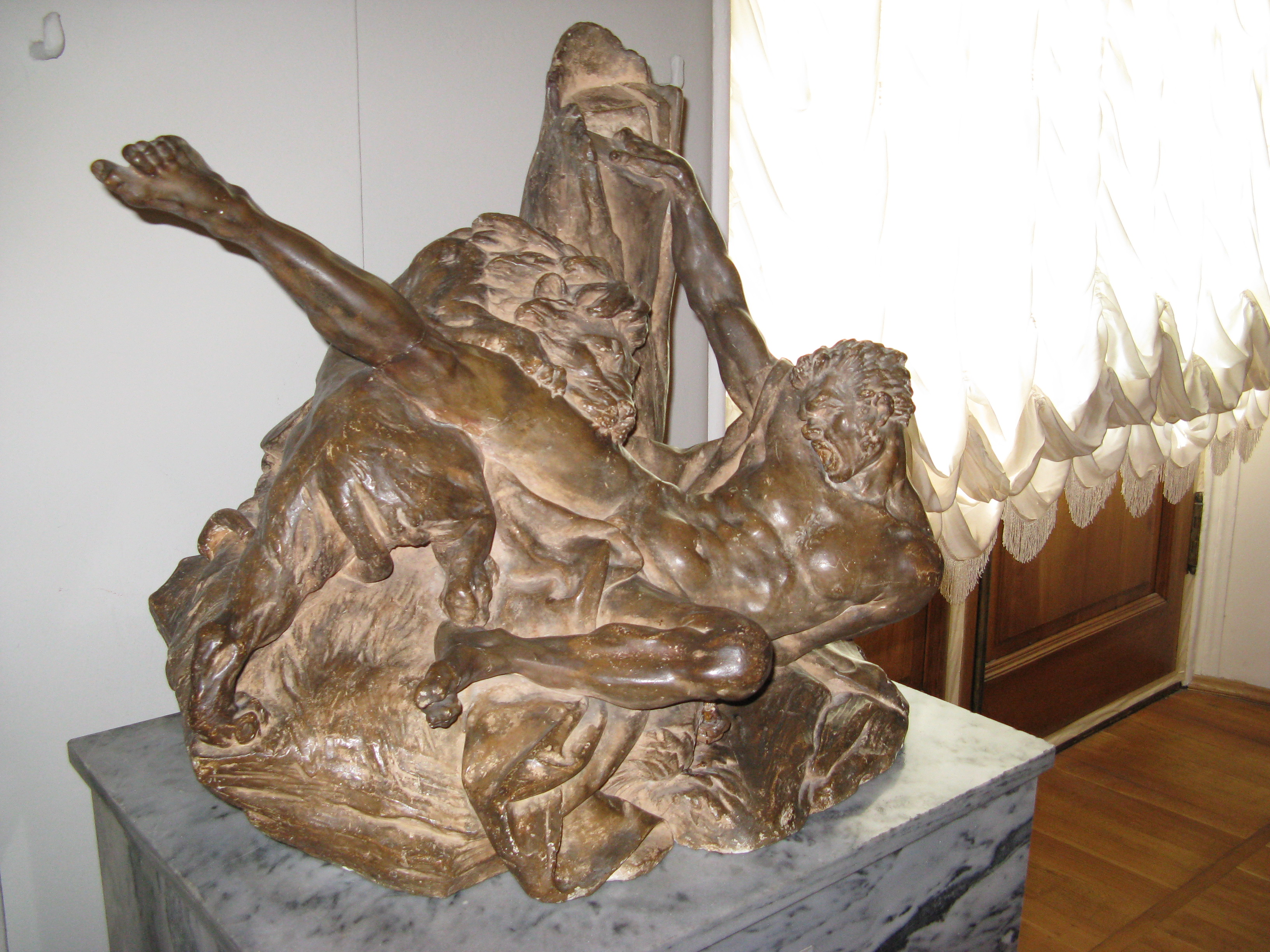 Milo of Croton by Étienne Maurice Falconet at the Hermitage.